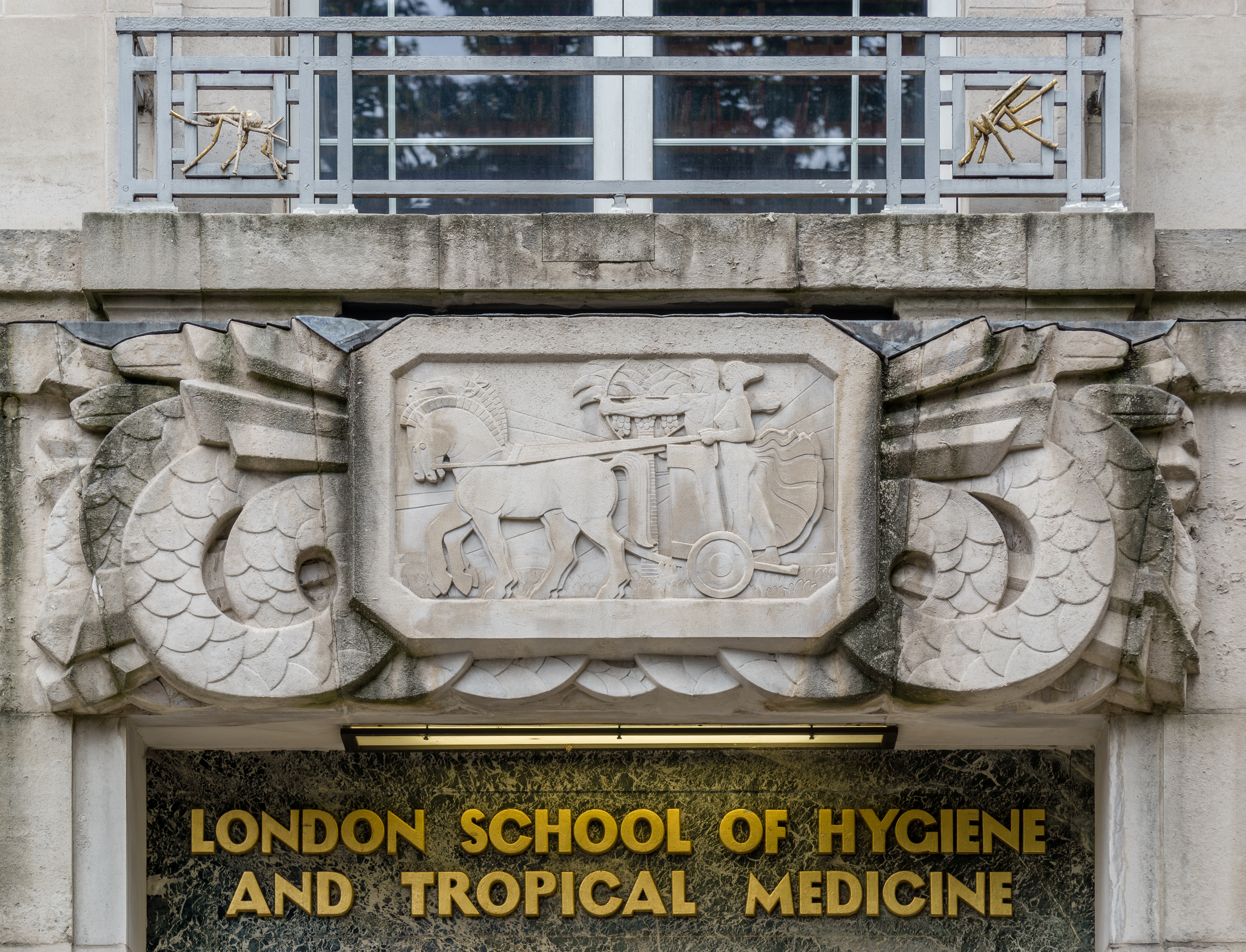 Above the entrance to the London School of Hygiene & Tropical Medicine. The logo, in Portland stone, shows Apollo and Artemis riding a chariot. Above are two mosquitoes, some of the "Gilded vectors of disease" that adorn font of the building. Wikidata has entry Q1126189 with data related to this item.